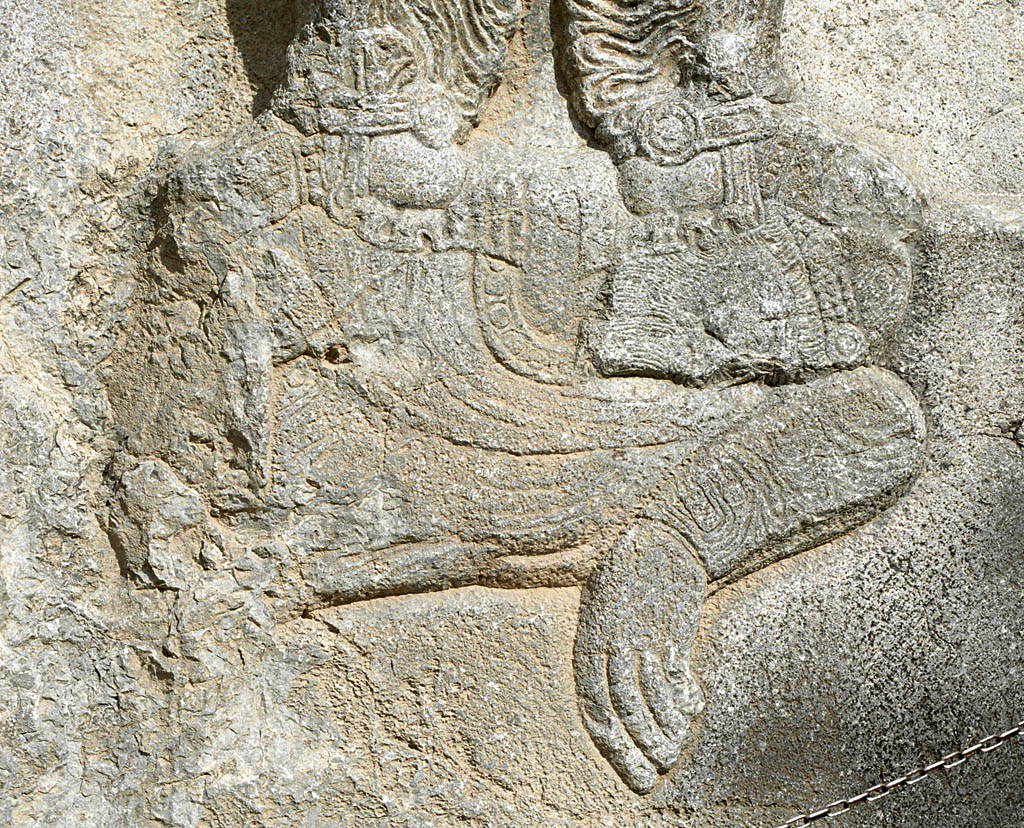 Taq-e Bostan: detail of the low-relief of Ardashir II's investiture: the fallen Roman